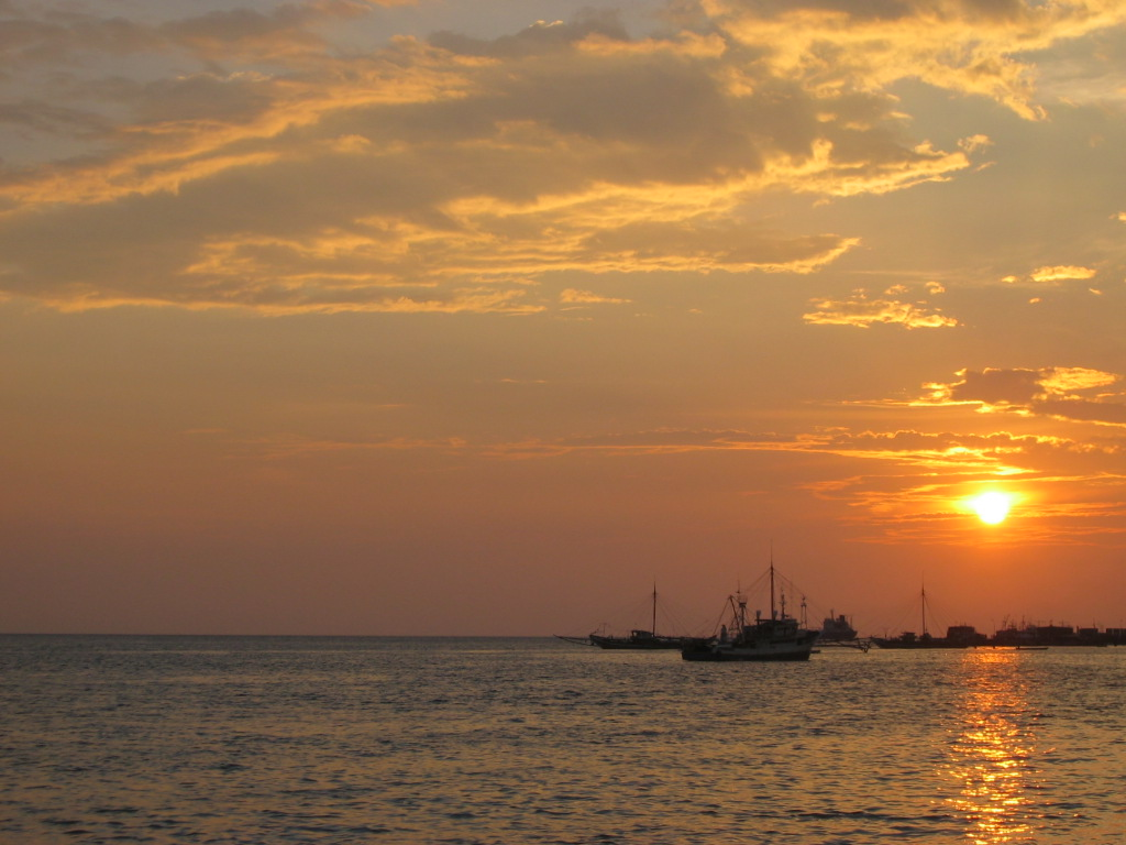 The sunset at Basilan. In the Mindanao region of the southern Philippines.